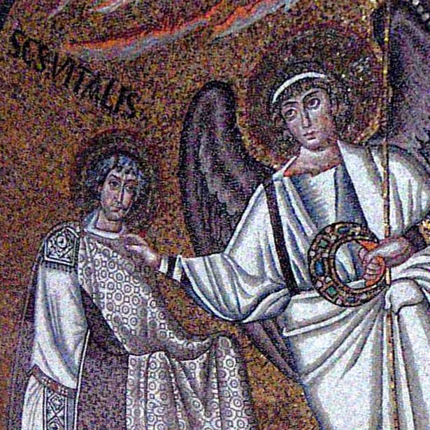 Cupola of the choir: Christ offers the martyr crown to San Vitale; Basilica of San Vitale in Ravenna, Italy Crop of Image:SanVitale09.jpg